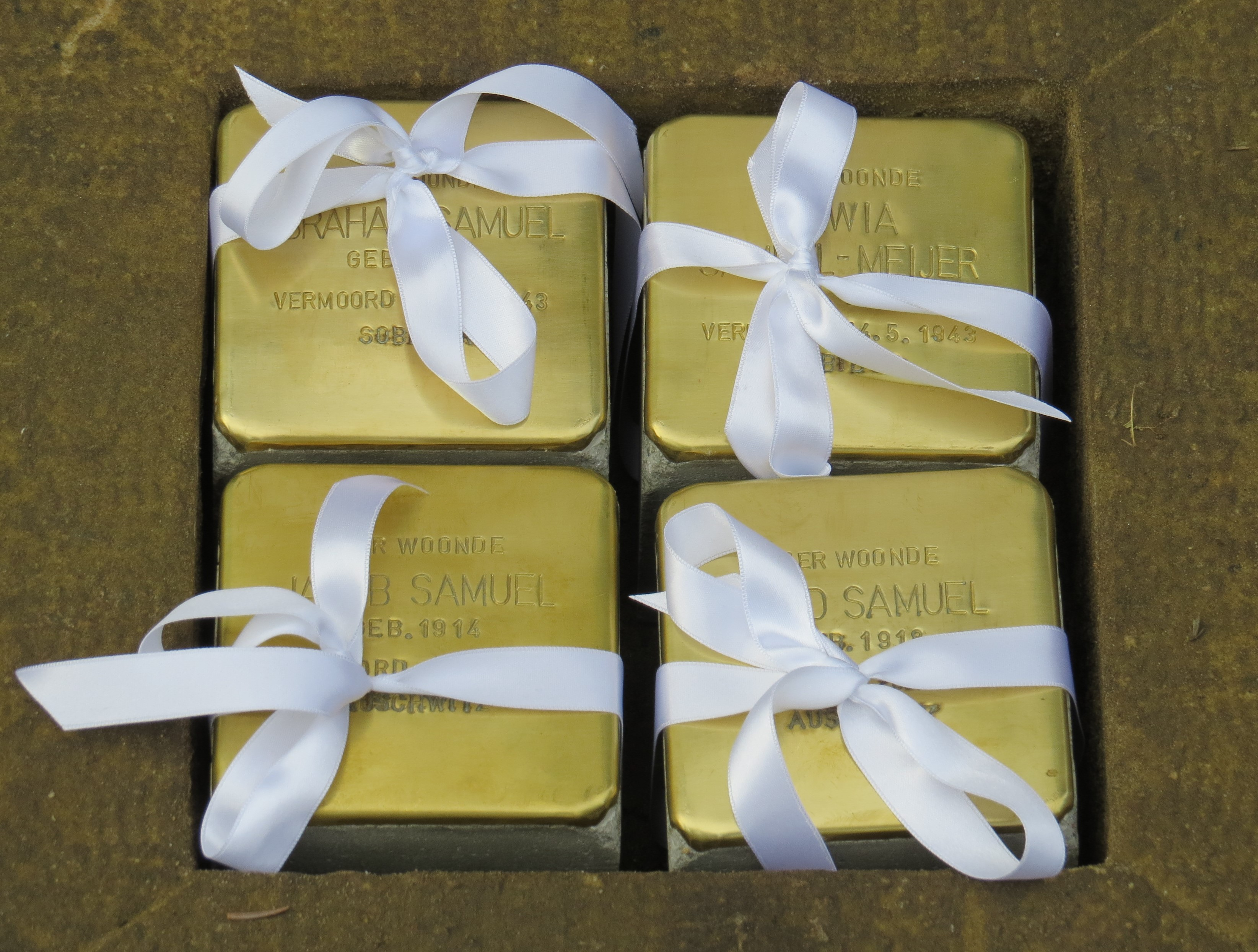 Stolpersteine in Nijverdal, 5 november 2015